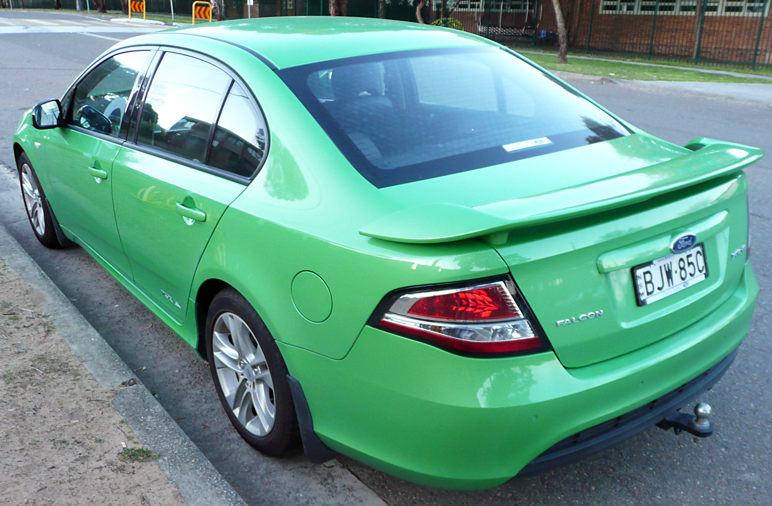 2009 Ford Falcon (FG) XR6 sedan. Photographed in Kirrawee, New South Wales, Australia.